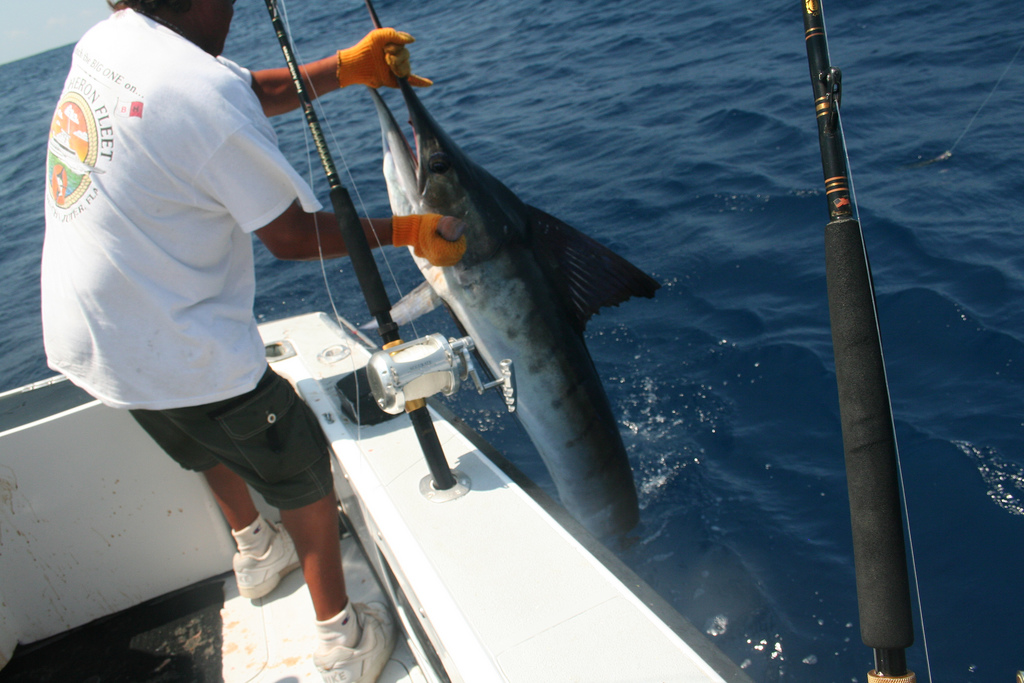 Stevee's Striped Blue Marlin that he caught during our trip to Mexico. This was 7' long and weighed about 140lbs. We let this one go back. As becomes clear from another picture in the same series, this fish was caught on a fishing trip off Cabo San Lucas, on the Pacific coast of Mexico, and so must be Makaira mazara.